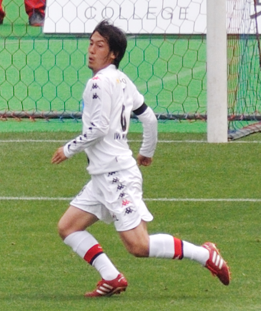 FC Tokyo vs Consadole Sapporo 30 March 2011